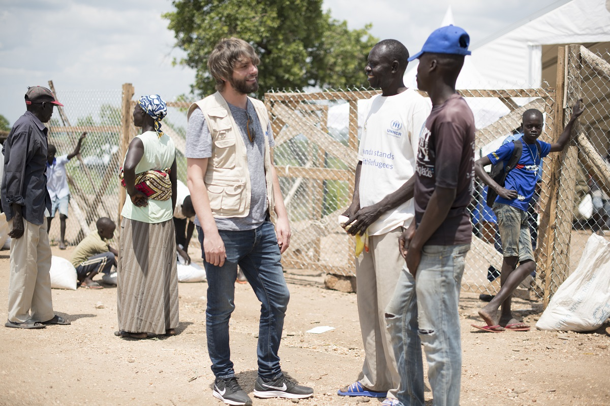 Benson Taylor speaking with South Sudanese refugees at the Bidi Bidi refugee settlement in North Uganda.